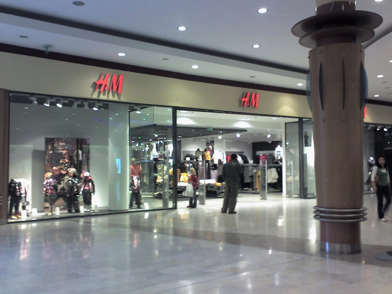 H&M Shop in Prague, Czech Republic, Nový Smíchov centre